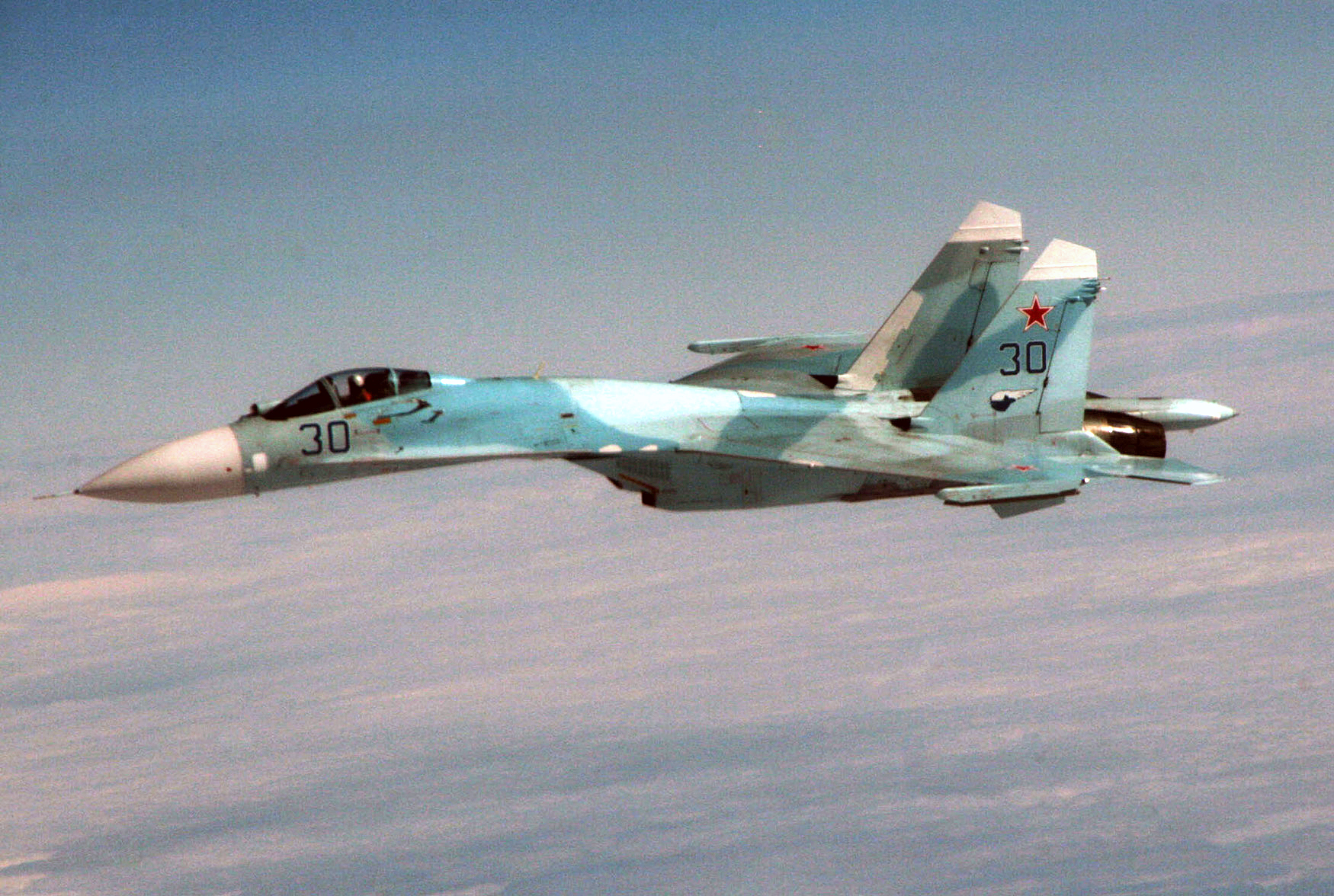 A Russian SU-27 fighter flies alongside Fencing 1220, the target of interest for Exercise Vigilant Eagle, Aug. 8. Vigilant Eagle is a cooperative exercise involving the North American Aerospace Defense Command and the Russian Air Force. The exercise scenario creates a situation that requires both the Russian Air Force and NORAD to launch or divert fighter aircraft to investigate and follow a "hijacked" airliner. The exercise focuses on shadowing and the cooperative hand-off of the monitored aircraft between fighters of the participating nations. U.S. Northern Command Photo by Maj. Michael Humphreys Location: Anchorage, AK Date taken: 08.08.2010